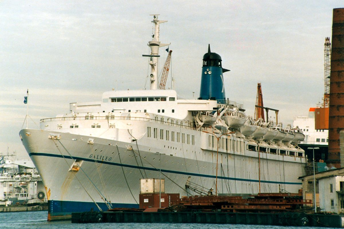 The cruise ship Galileo at the shipyards Lloyd Werft of Bremerhaven in 1989.